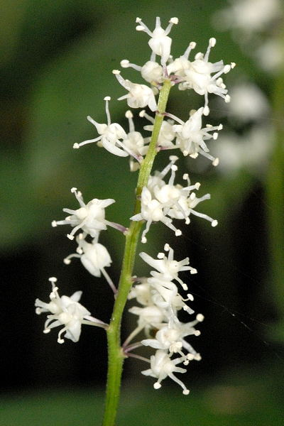 Maianthemum bifolium from Commanster, Belgian High Ardennes .